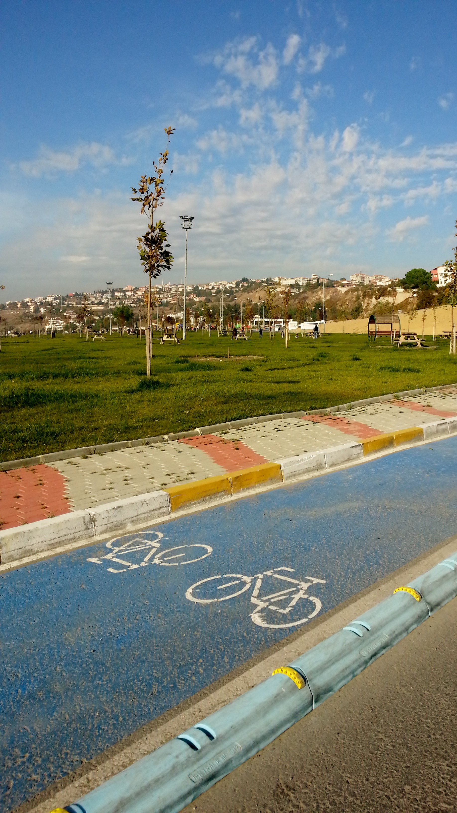 beylikduzu district of istanbul, cycling lane.